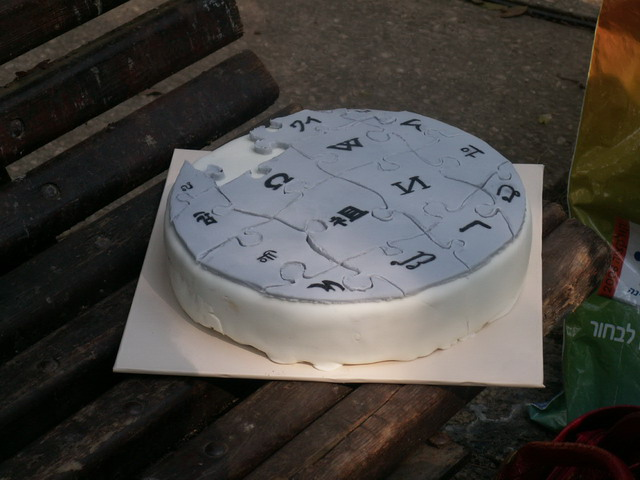 A cake in the shape of Wikipedia's logo presented at the Wikipedians' picnic held in Tel Aviv on March 30, 2007. The picture is taken from he.wp and was released to the public domain by the photographer, Avi Kedmi. Original upload with lisence details